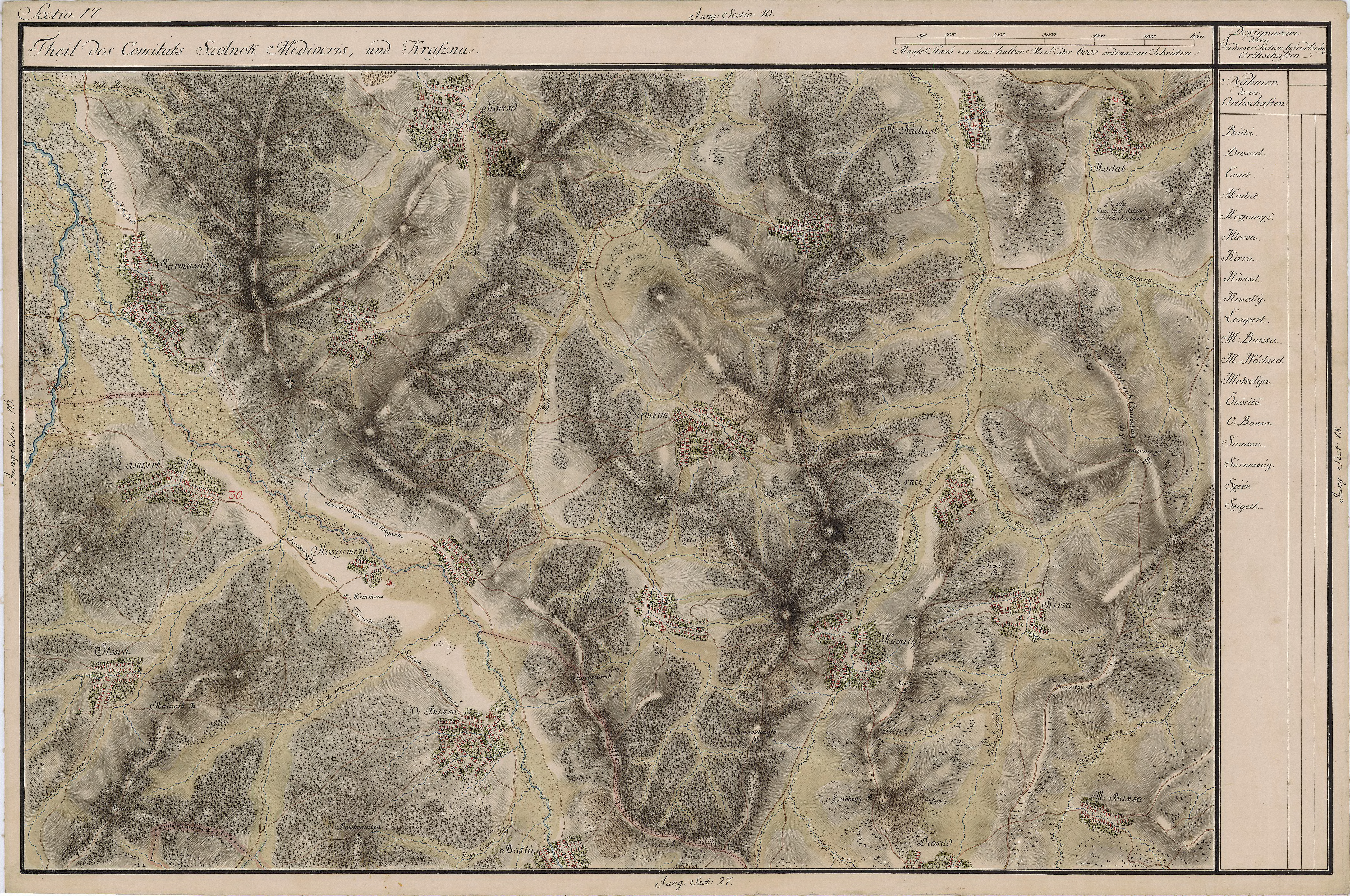 Grand Duchy of Transylvania, 1769-1773. Josephinische Landaufnahme pg.014